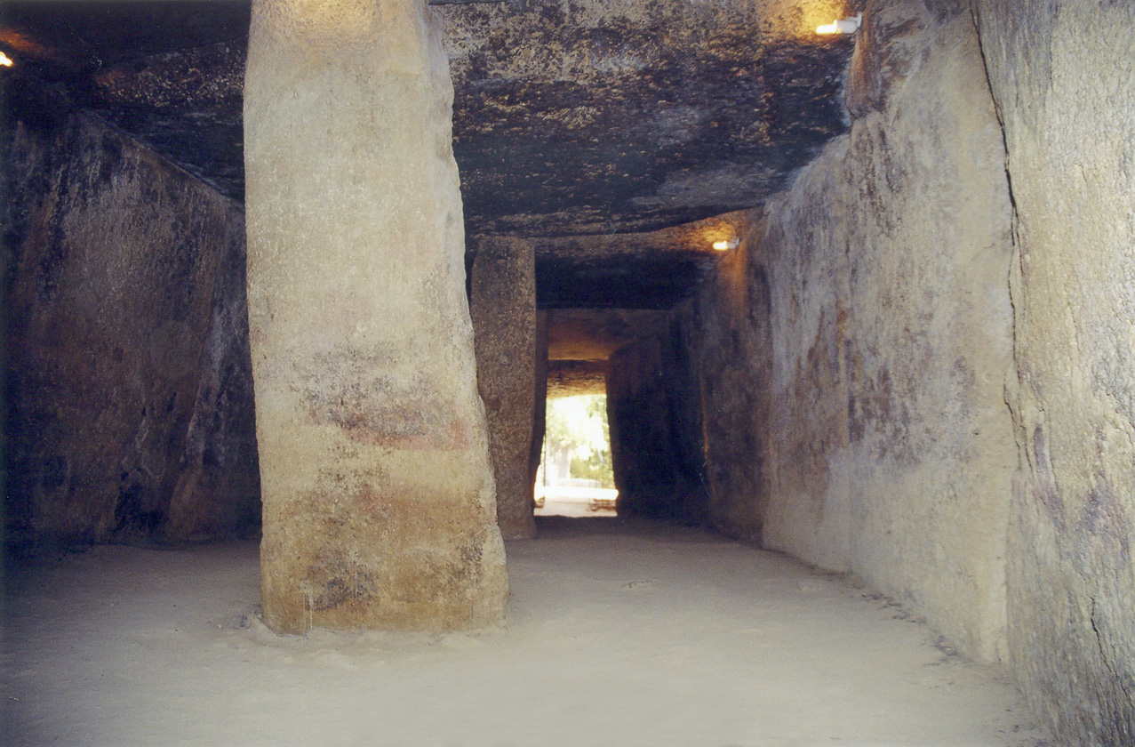 Interior of Dolmen de Menga, a bronze-age tumulus (dolmen) from the mid 3rd millenium BC (ca. 2500 BC) in Antequera (Andalusia, Spain)